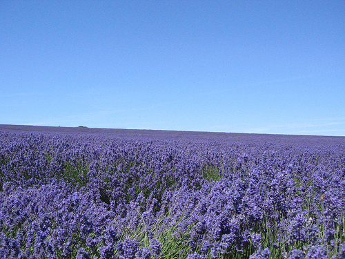 Lavender (?)